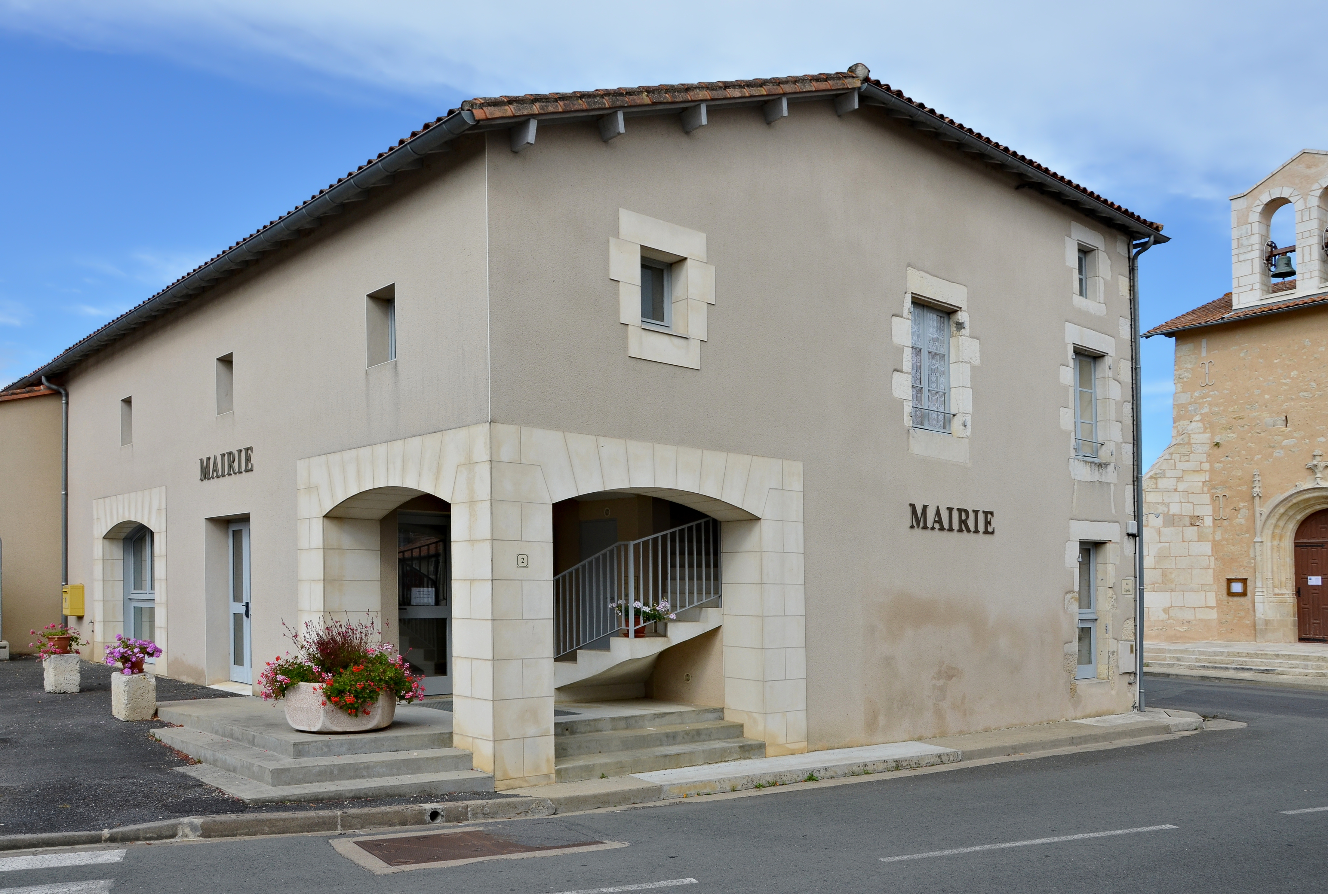 Townh hall of La Chapelle-Bâton, Vienne, France.